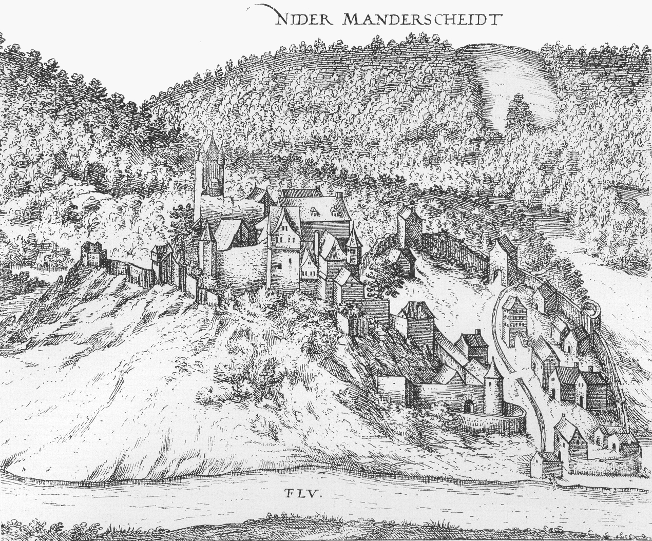 Niederburg in Manderscheid, Rhineland-Palatinate. Detail of an old engraving.